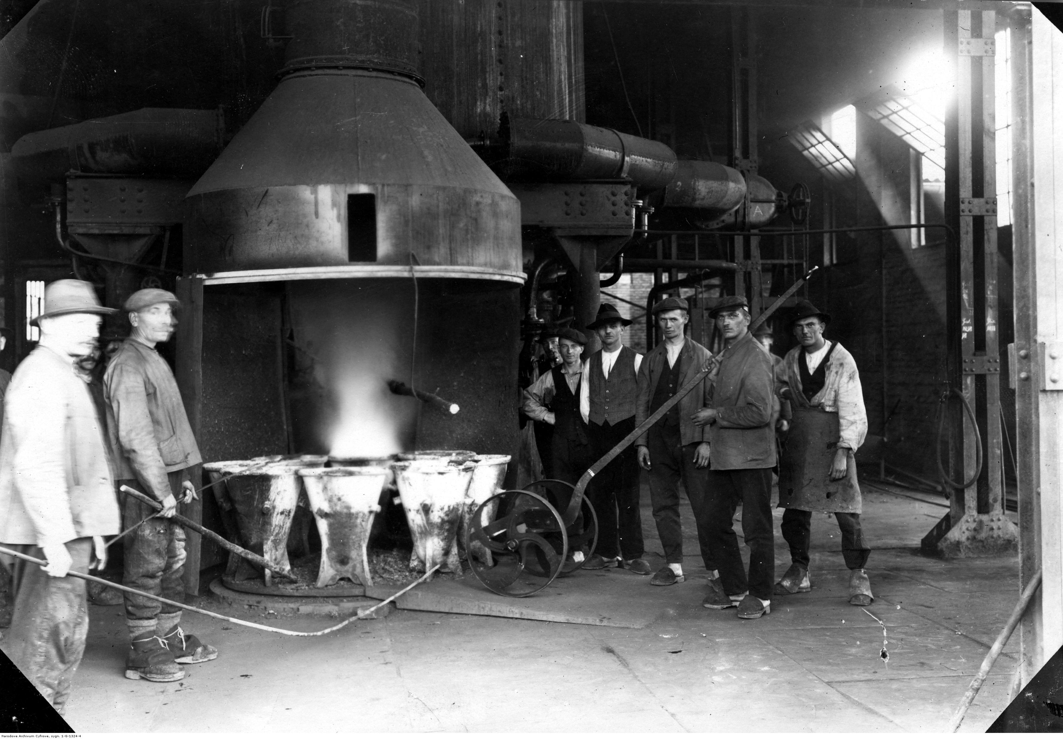 Inside Fryderyk Smelting Works in Strzybnica (now part of Tarnowskie Góry, Poland).